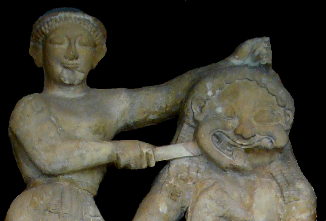 Extract to